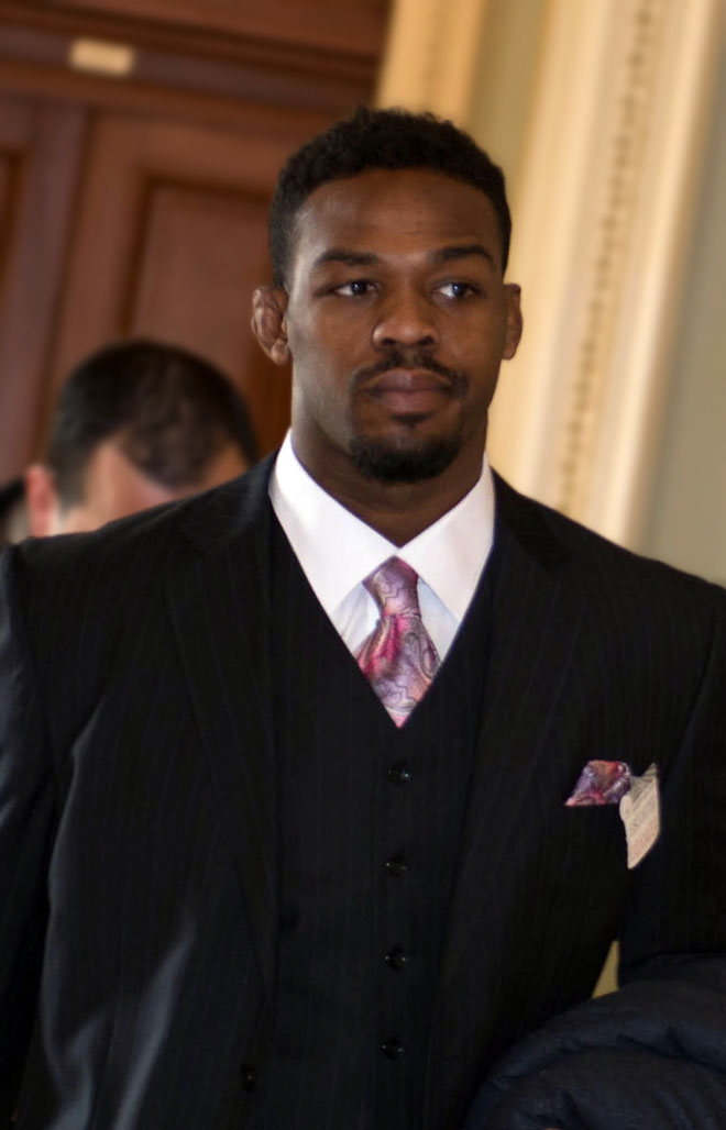 Jon Jones at the Event Supporting Brain Health Study at the United States Capitol.